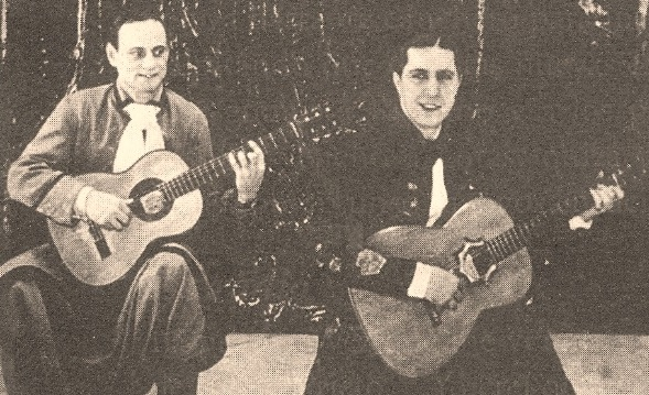 Carlos Gardel junto a su guitarrista Ángel Domingo Riverol